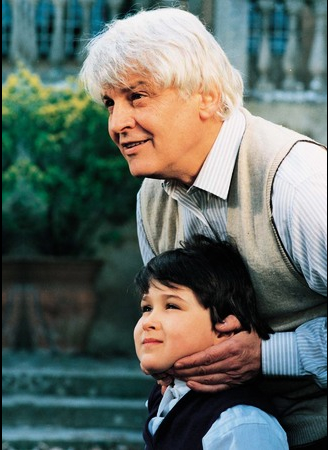 Lanfranco (Jacques Perrin) and Giovanni (Andrej "Kolya" Chalimon) in "First the Music, Then the Words"